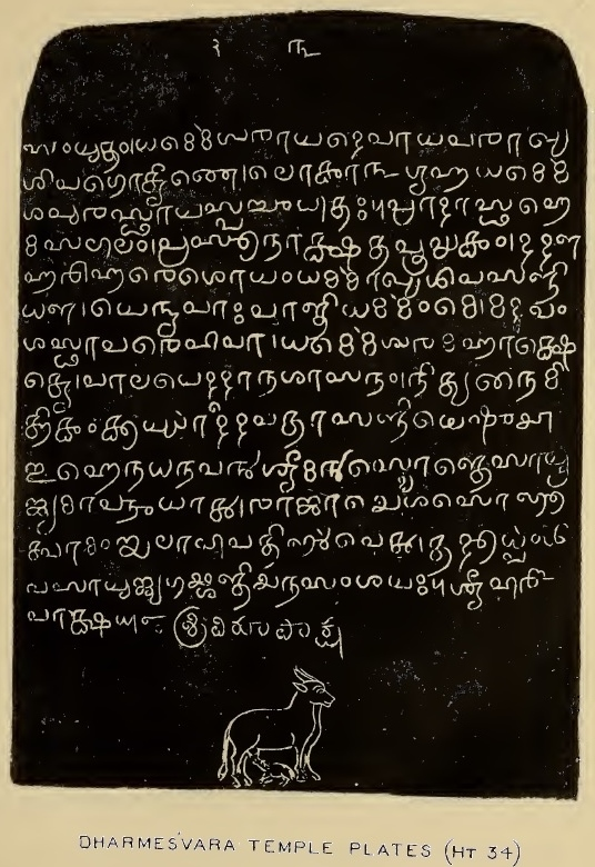 Tamil language inscriptions written in Grantha script - Dharmeshwara Temple Plates, Kondarahalli, Hoskote, near Bangalore, Karnataka - Vijaynagar Period. Copper Plates of the Vijayanagar period in possession of the temple priest, written in Tamil using Grantha script.